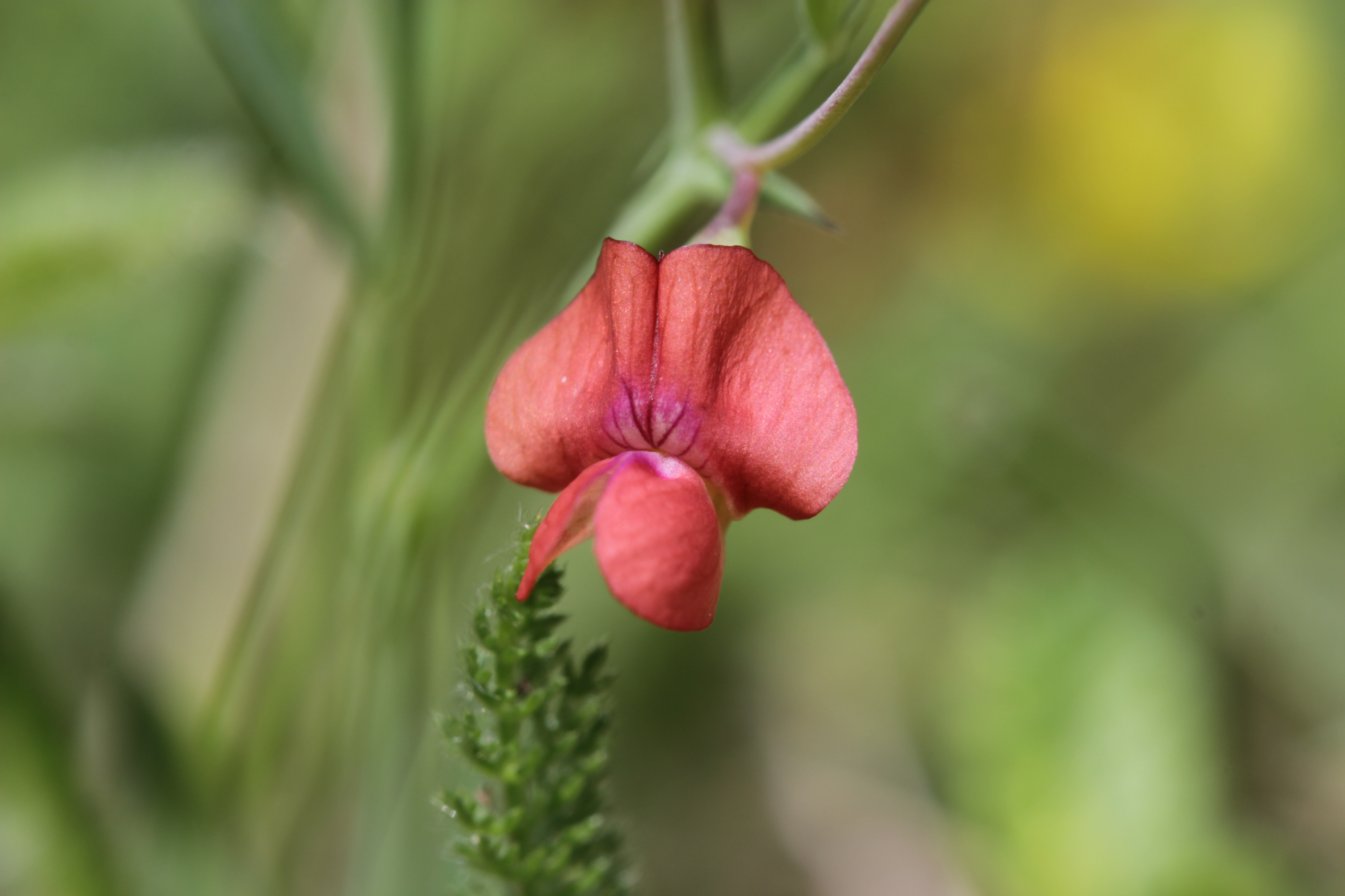 Grass pea - Lathyrus sphaericus